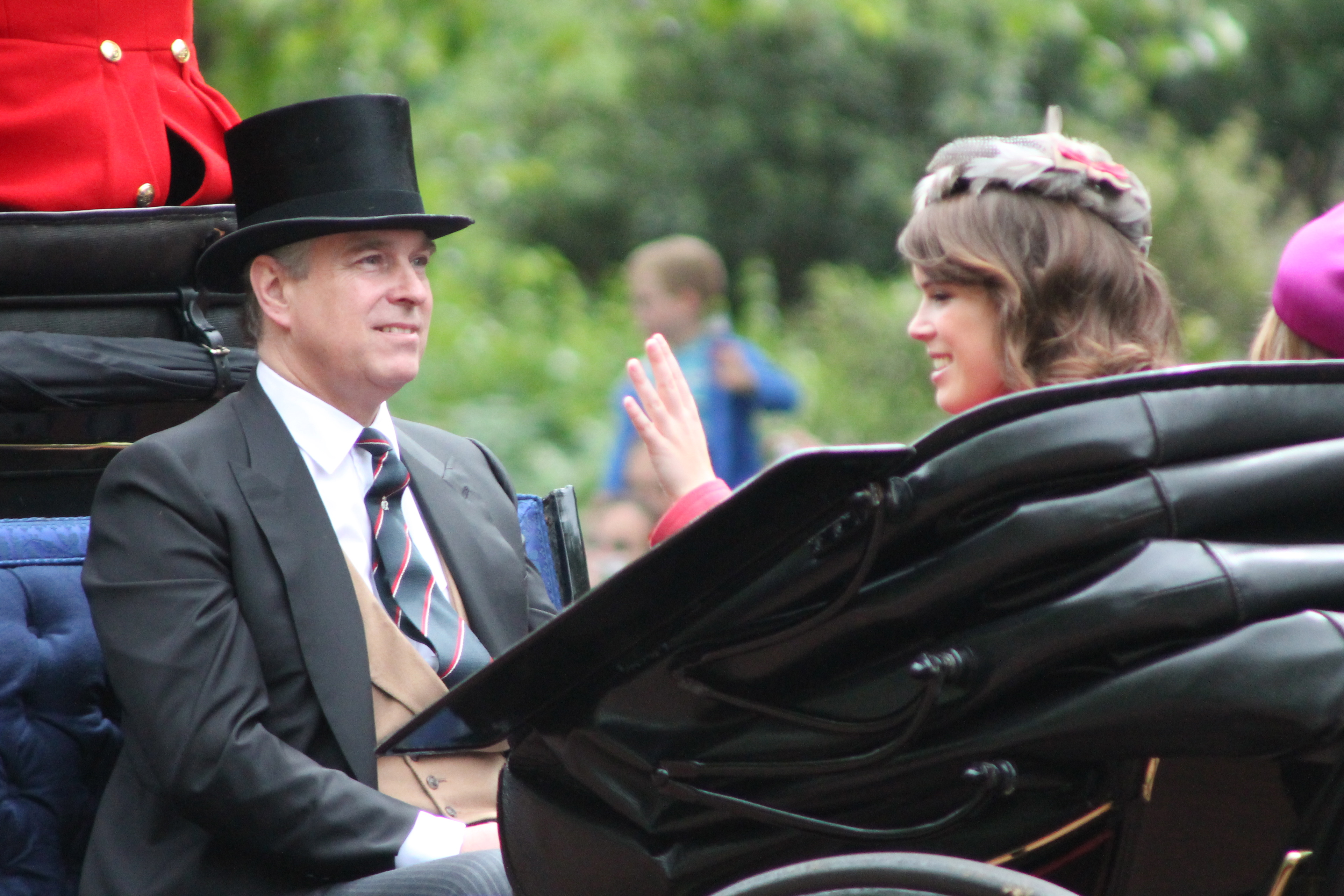 The Duke of York, June 2012